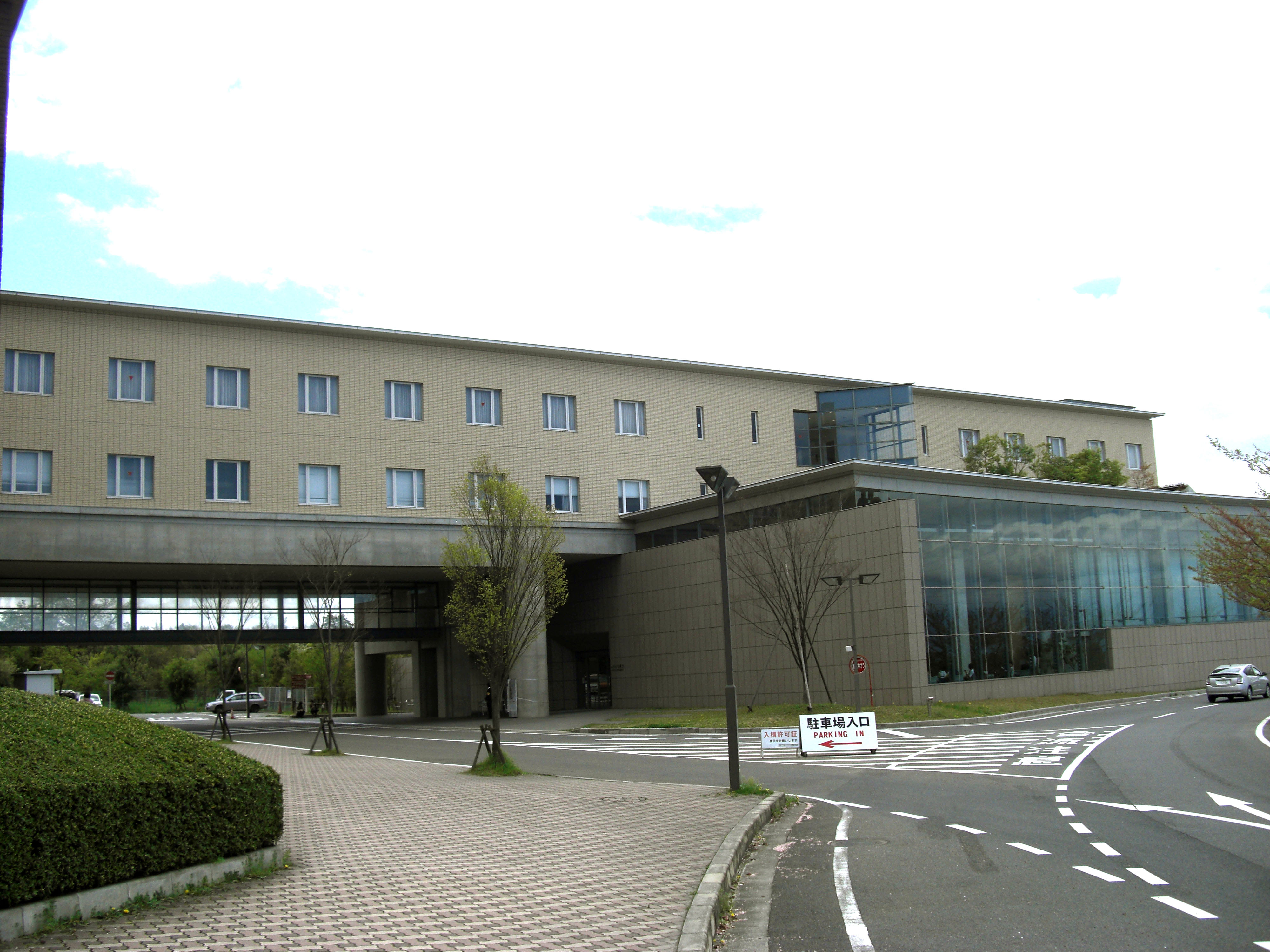 EPOCH RITSUMEI 21 (Ritsumeikan University Biwako Kusatsu Campus), 1-1-1 Nojihigashi Kusatsu-City Shiga JAPAN.